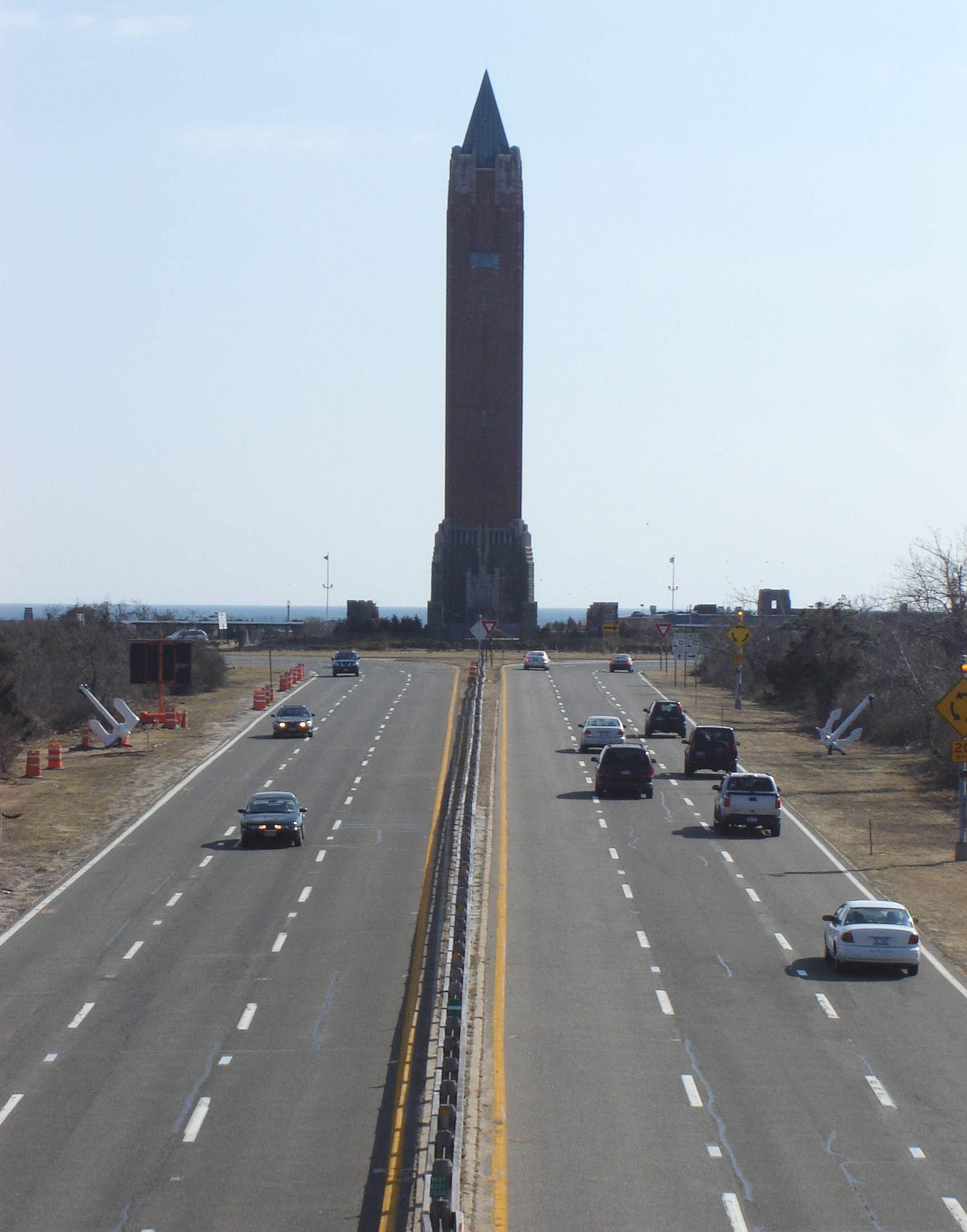 Taken On the Bay Parkway bridge above Wantagh Parkway towards the Jones Beach Water Tower.